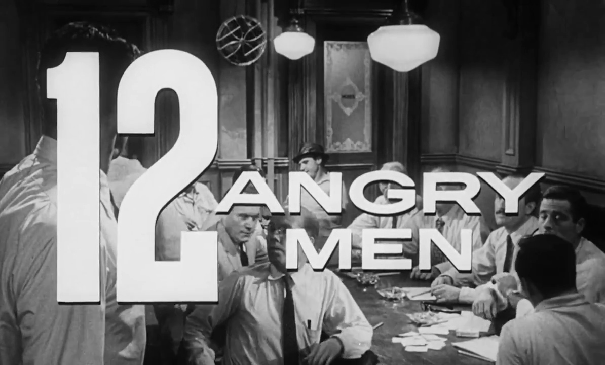 Screenshot of the trailer of the film 12 Angry Men (1957).